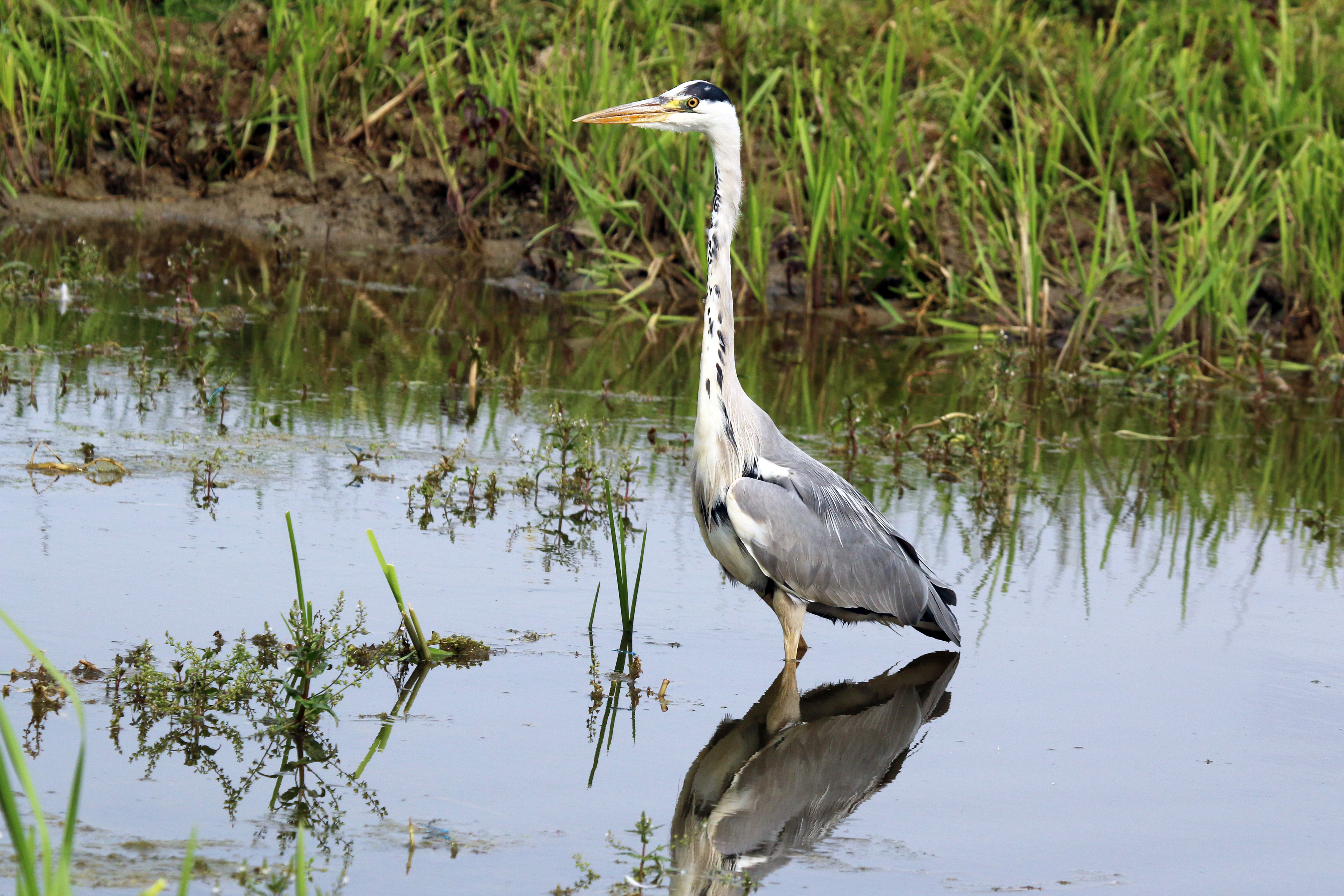 Grey heron (Ardea cinerea), Wolvercote, Oxfordshire